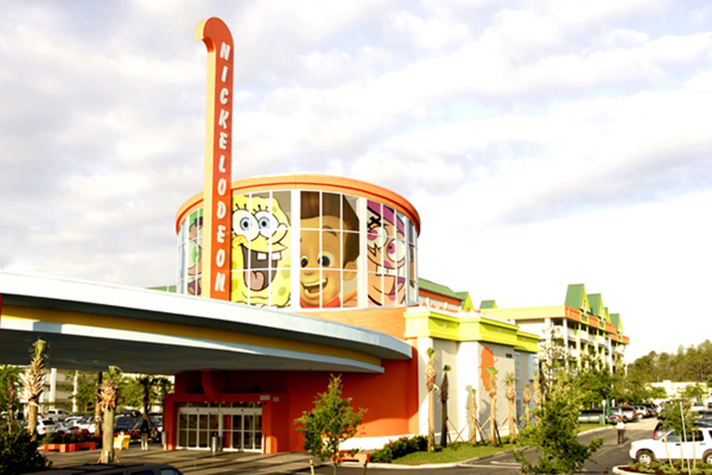 Exterior view, Nickelodeon Suites Resort, Orlando, Florida